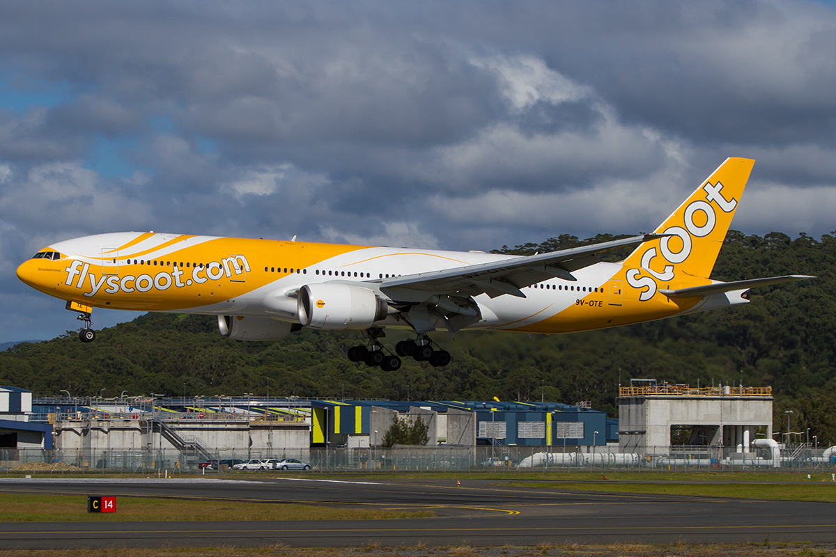 Scoot Boeing 777-200ER landing at Gold Coast Airport